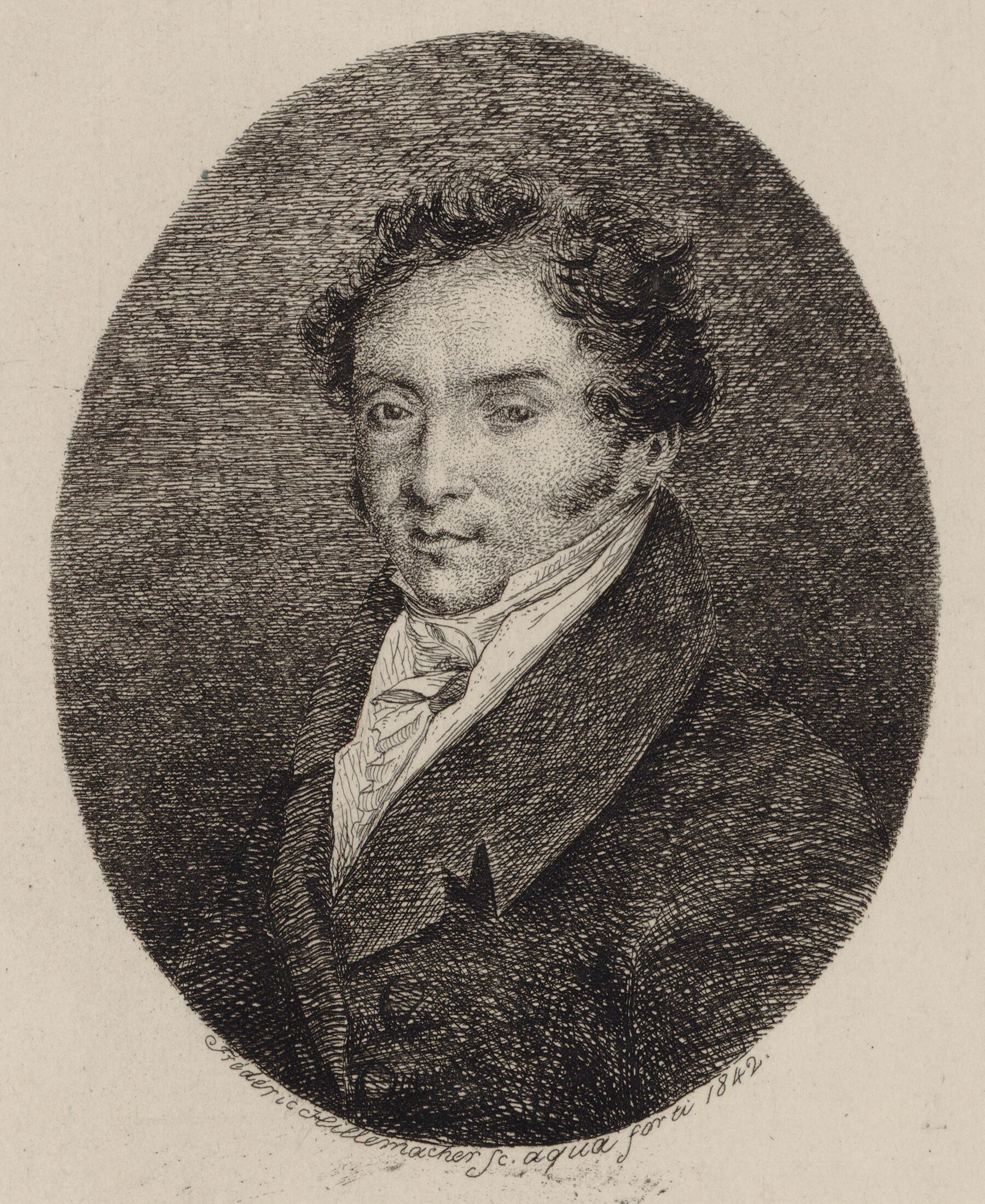 Portrait (etching) of Jacques Féréol Mazas (1782-1849), French composer